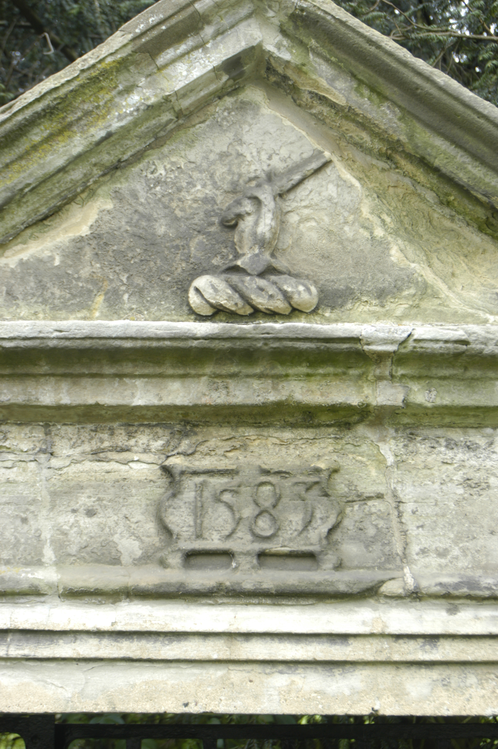 Photo by Rodolph de Salis (me) of a detail of the gateway commemorating Thomas Fane and Mary Nevile erected in late C16th Badsell, Kent, but moved to Fulbeck in Lincolnshire in C20th. Dated 1583 it bears initials TF and MF, for Thomas Fane and his wife Mary Neville. Note how it shows the original Fane crest